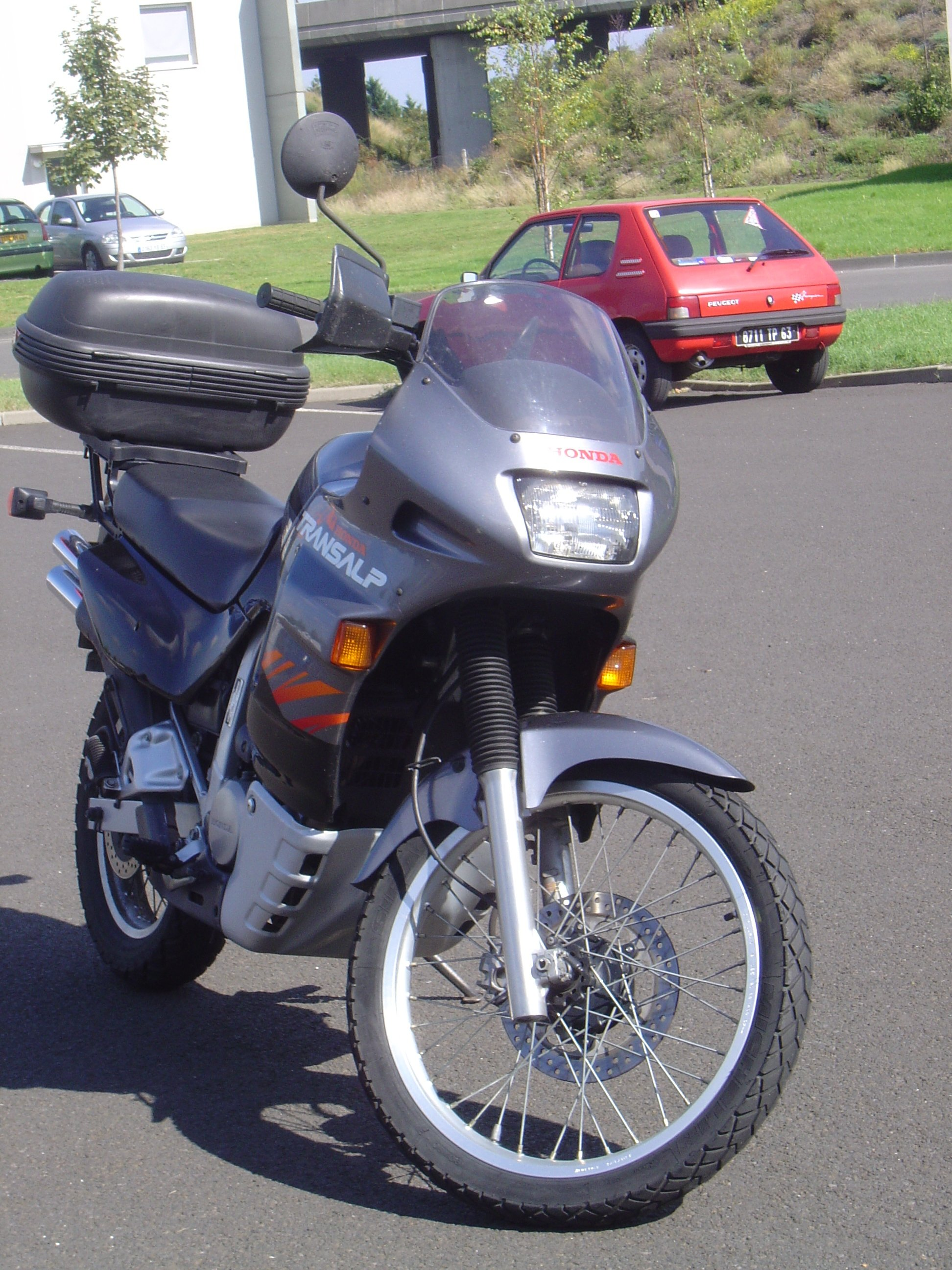 Motocyclette HONDA TRANSALP 600 XLV